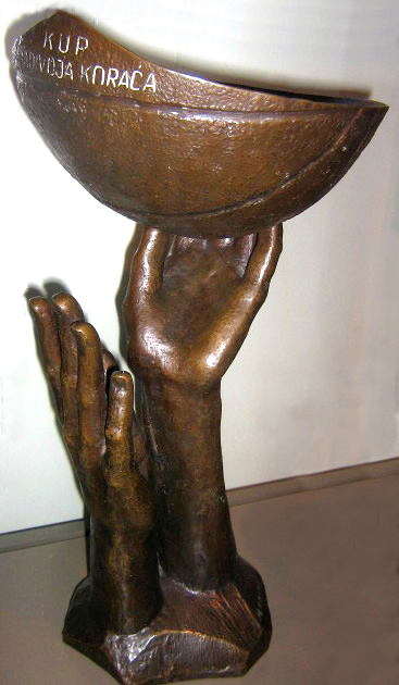 Copa Korać conquistada por el FC Barcelona